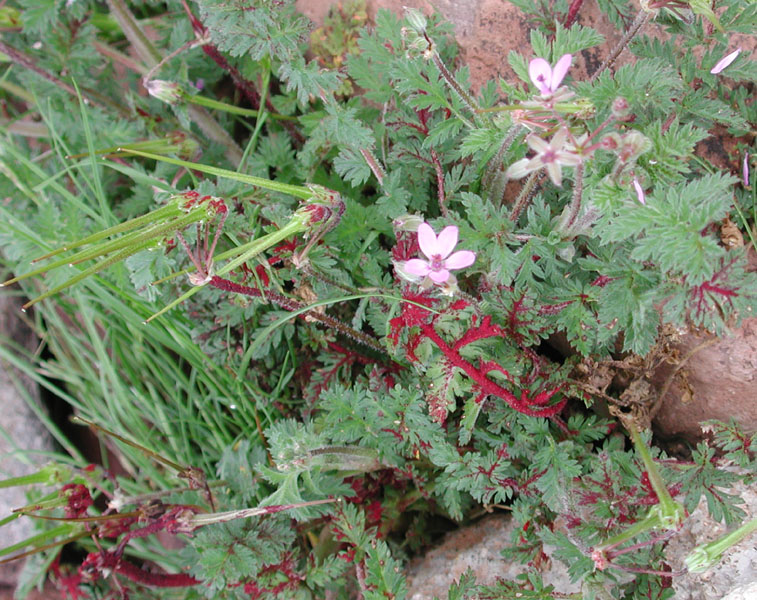 Synchytrium (prob. S. papillatum) infection of Erodium cicutarium. At Lookout Mountain, Phoenix, Maricopa Co., Arizona, USA.